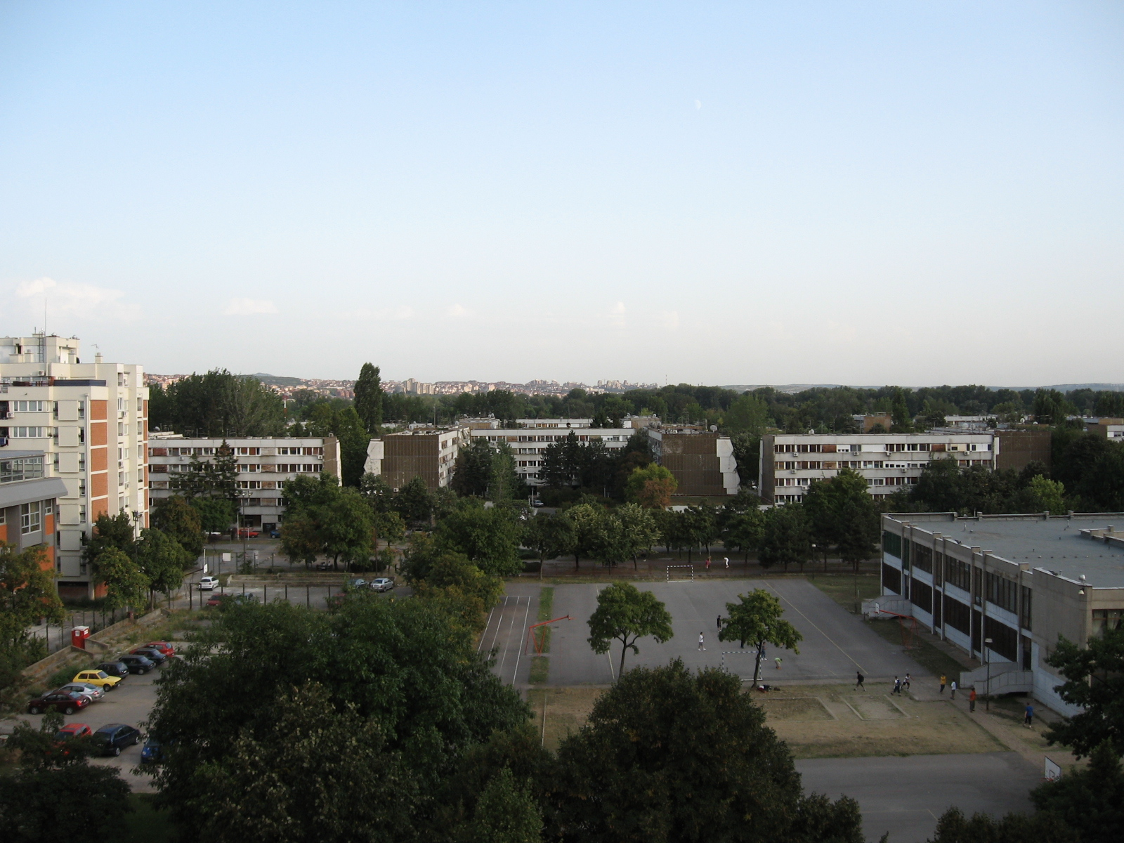 New Belgrade's Blok 45 - view of Branko Radičević primary school in September 2008